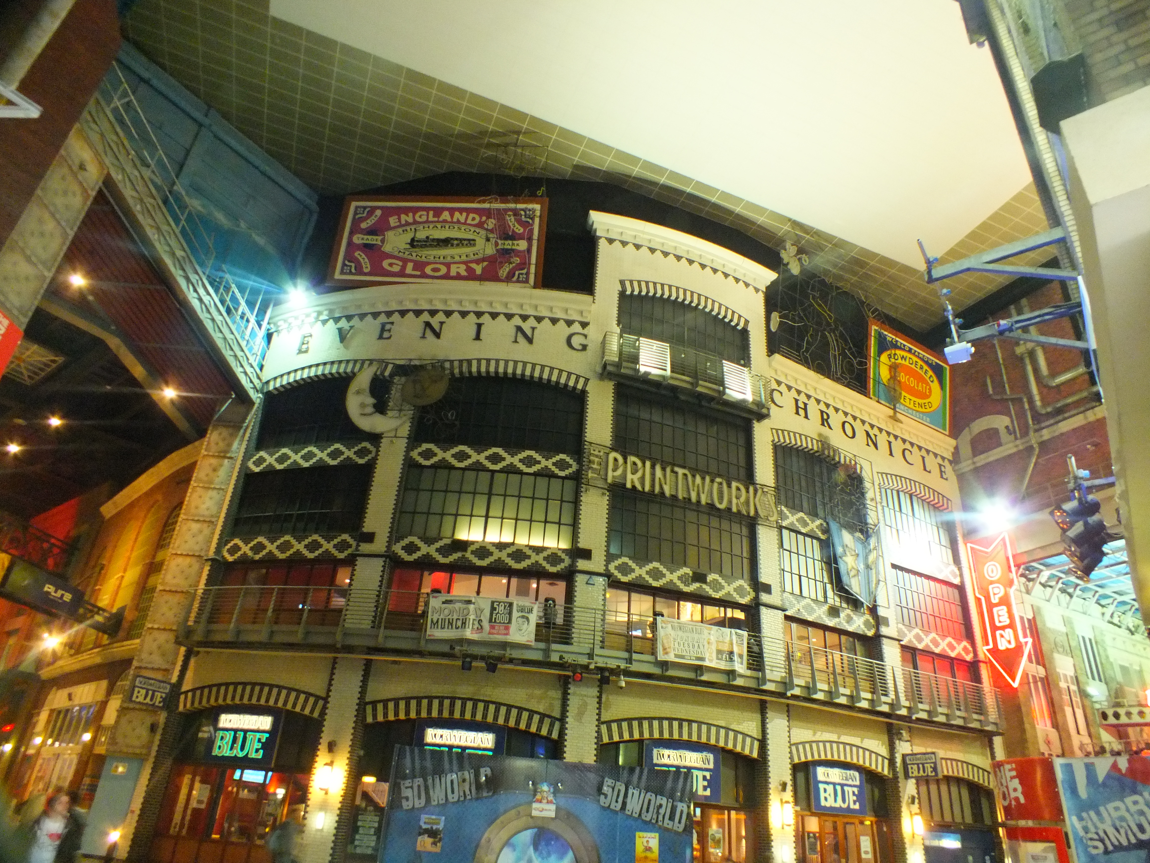 The Printworksin Manchester, England. (originally known as Kemsley House) is an urban entertainment venue, located on Withy Grove. The building was constructed in 1929 and was the largest newspaper printing house in Europe. It was closed in 1986 and lay derelict until 2000 when It reopened as the home for a variety of clubs and eateries.